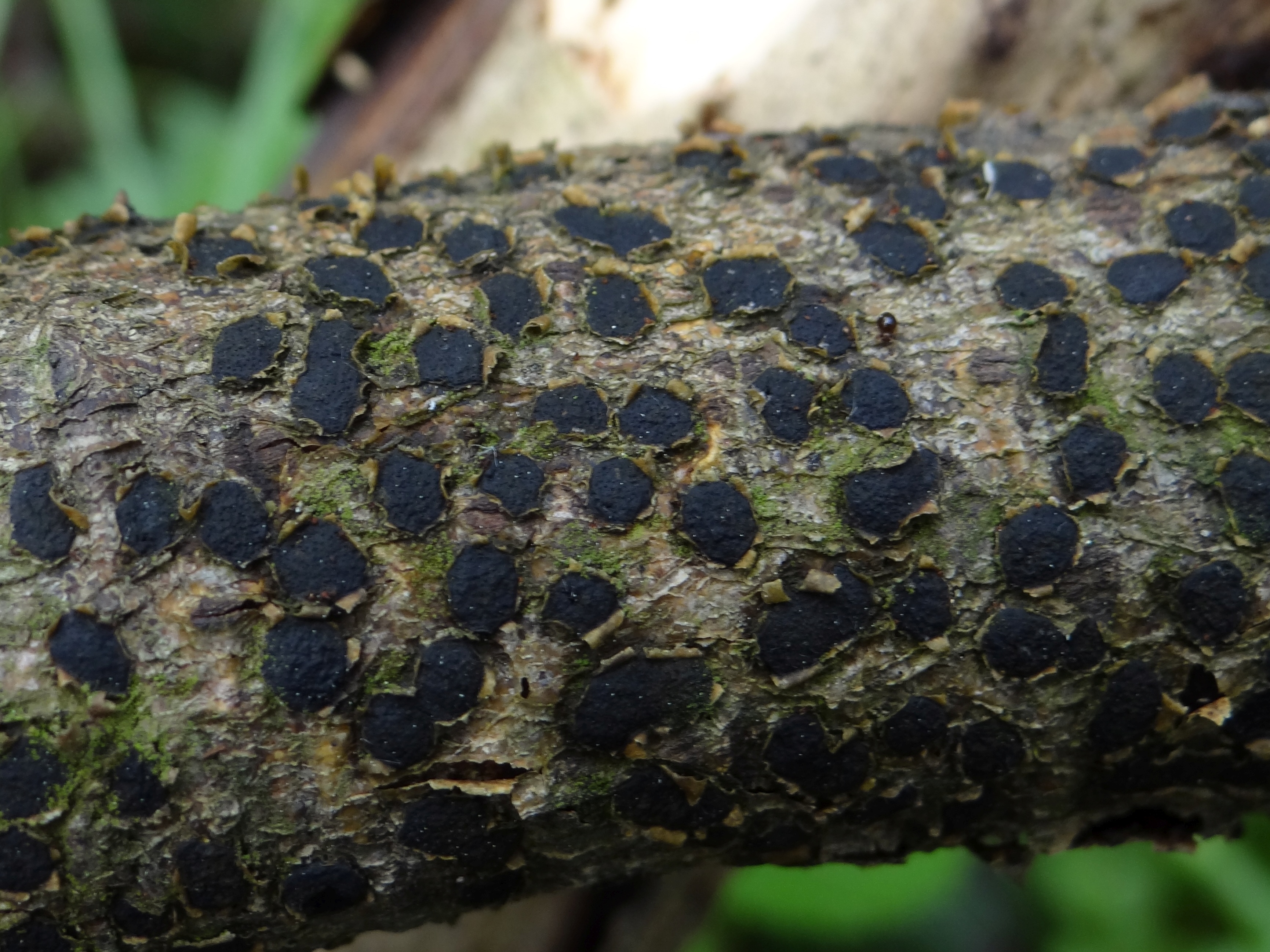 =Diatrype disciformis (location: Poland, Rybie Nowe)